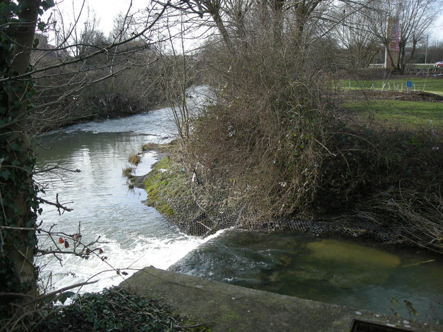 Rugby-The River Swift The River Swift spills down into the River Avon near Leicester Road.